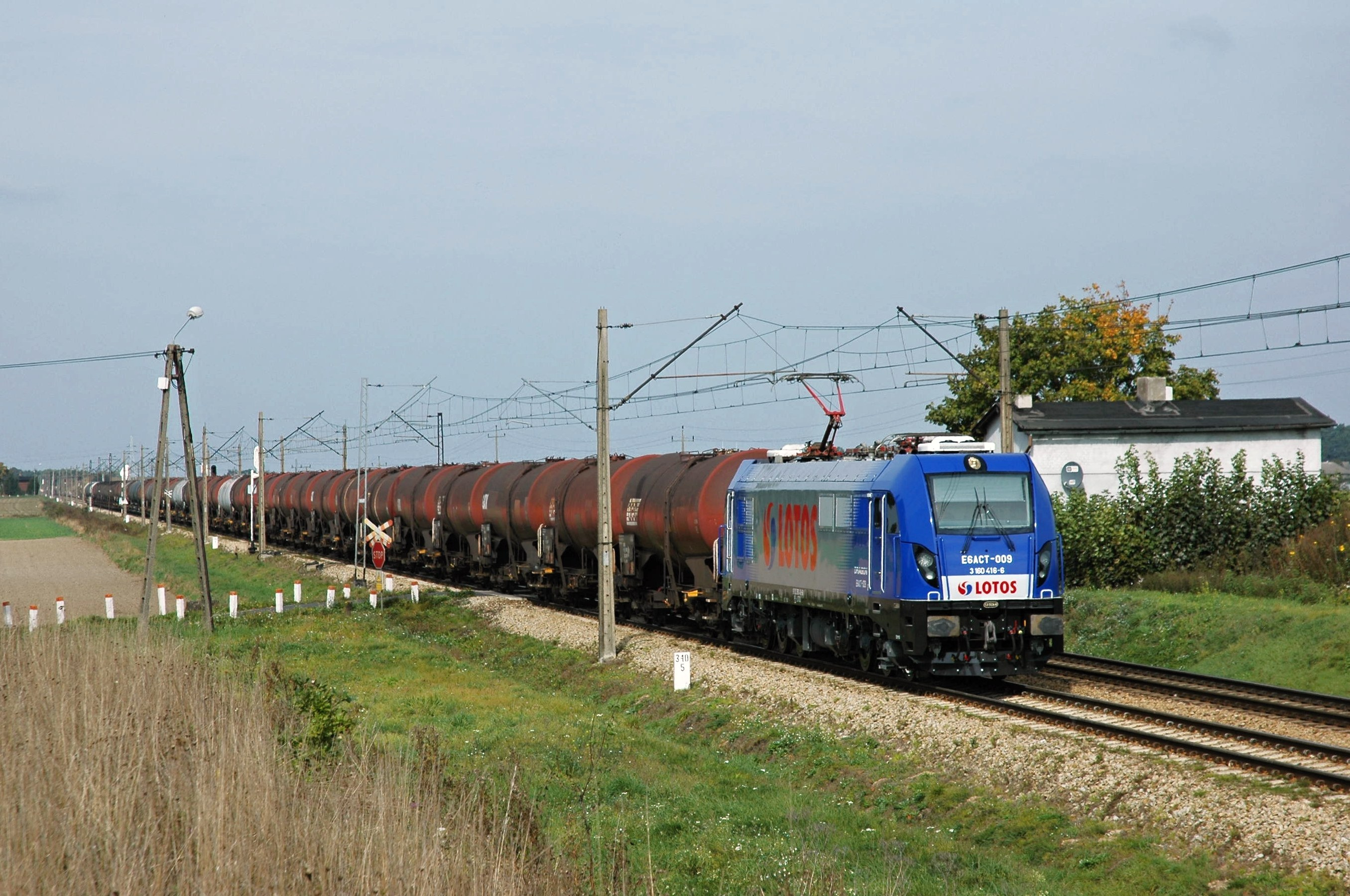 E6ACT-009 of Lotos Kolej with a train of tank wagons between Nowa Wieś Wielka and Złotniki Kujawskie, Poland